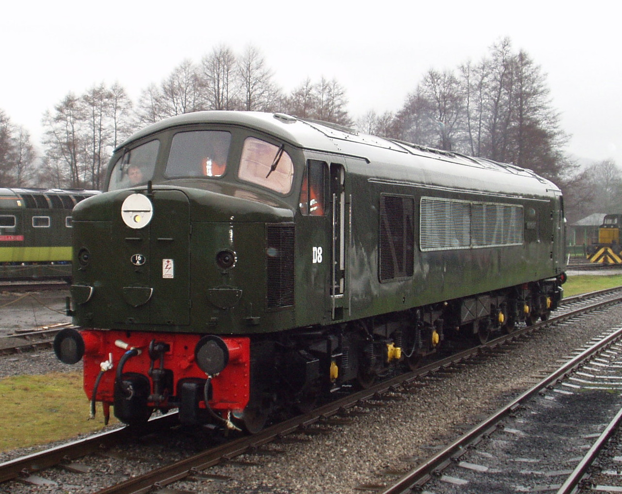 Class 44 'Peak' diesel locomotive number D8 at Rowsley South. Please replace this image with one of better quality. I have only uploaded it because no other image was available to illustrate this Class's article.